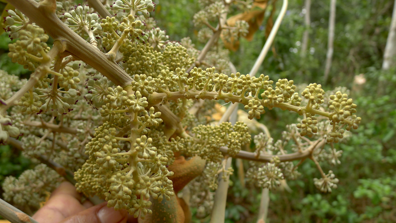 Schefflera morototoni (Aubl.) Maguire, Steyerm. & Frodin